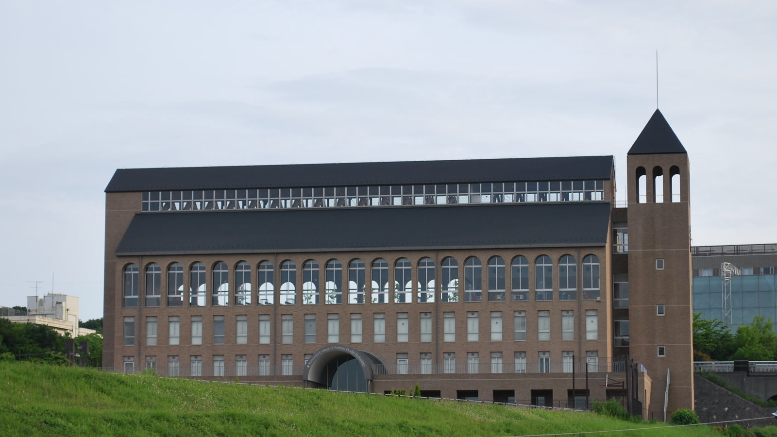 Yamazaki_College_of_Animal_Health_Technology